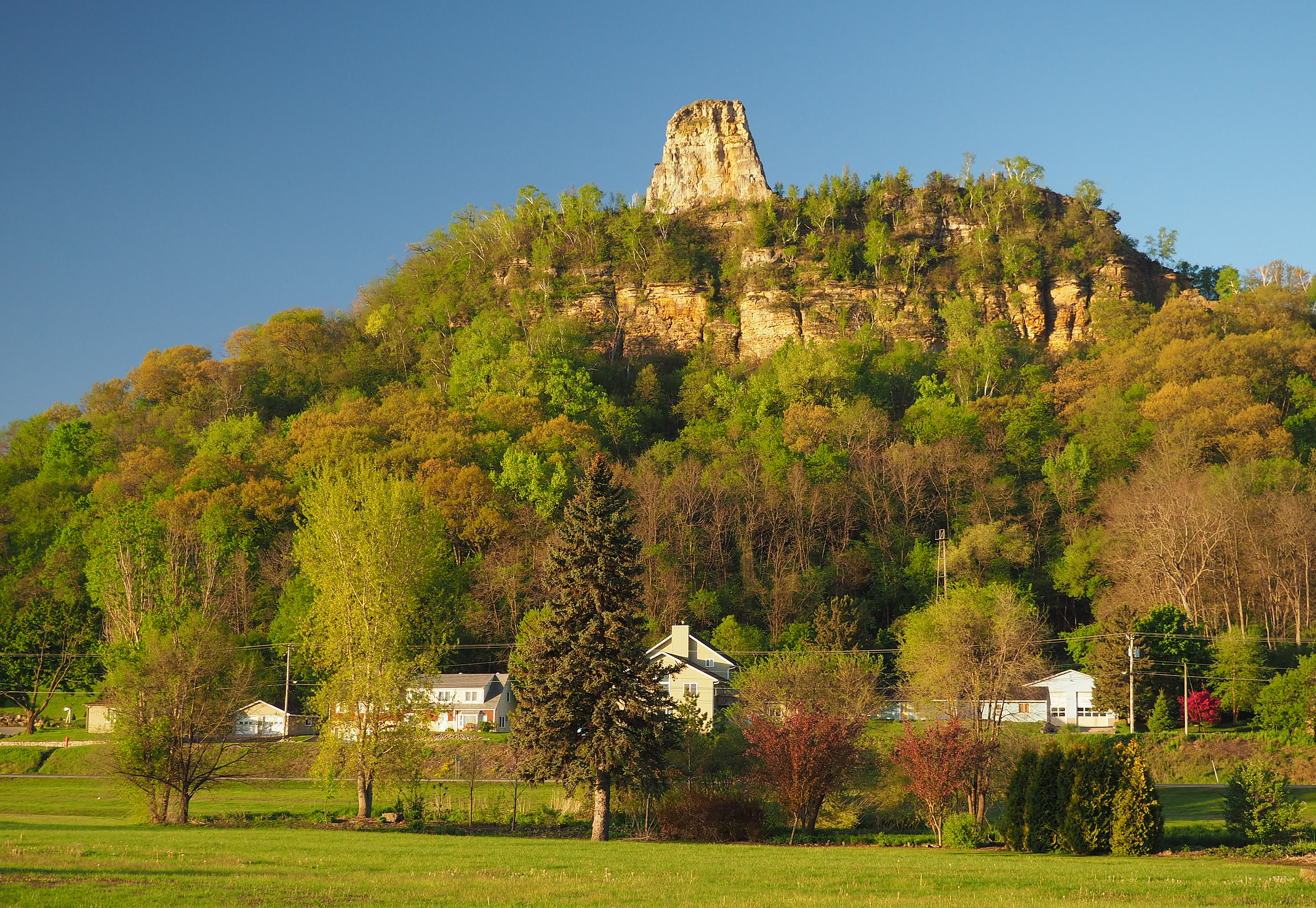 Sugar Loaf Bluff, Winona, Minnesota, USA. Viewed from the north.